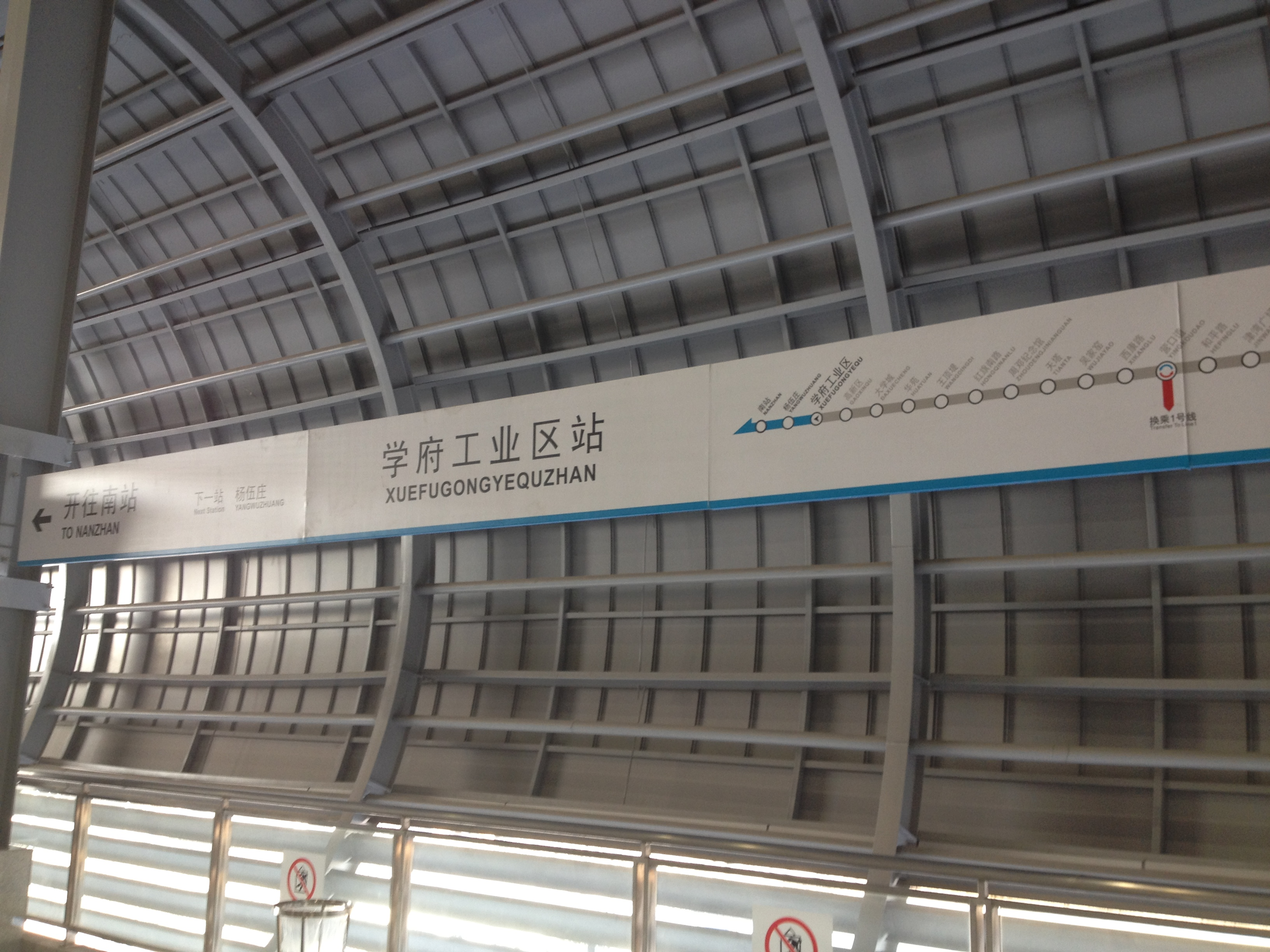 The sign of Tianjin Metro XUEFUGONGYEQU Station